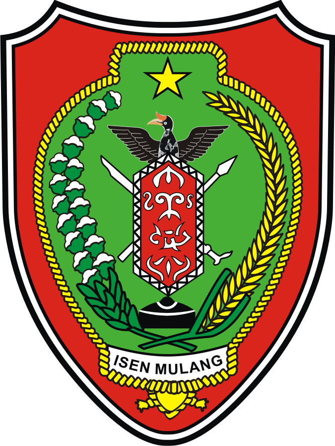 Coat of arms of Central Kalimantan province, Indonesia.